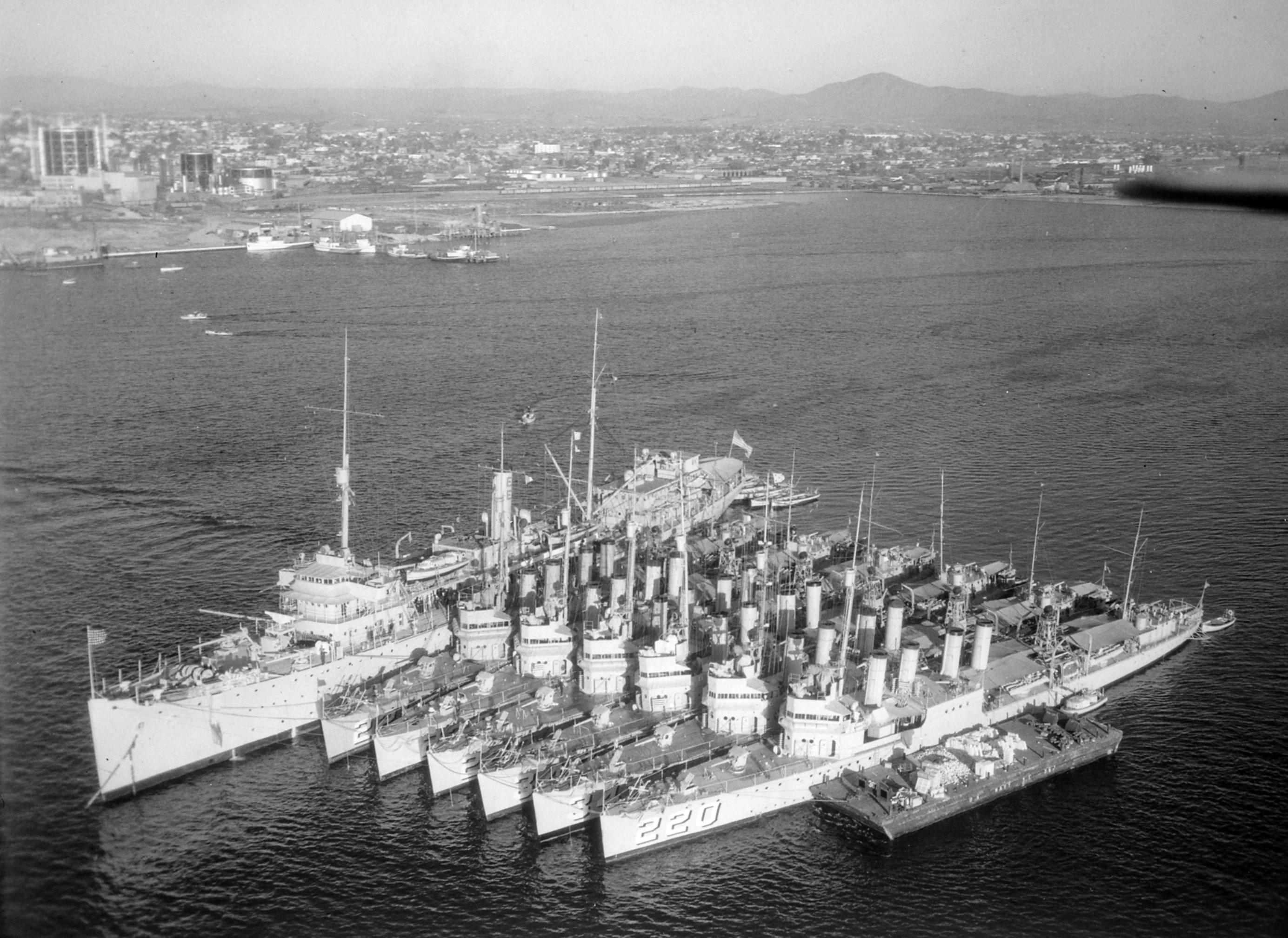 The U.S. destroyer tender USS Melville (AD-2) with a squadron of Clemson-class destroyers alongside at San Diego, California (USA), on 10 November 1932. The first destoyer is USS MacLeish (DD-220).